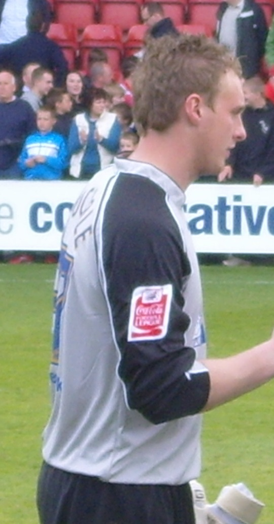 David Stockdale. Image cropped from original at flickr.